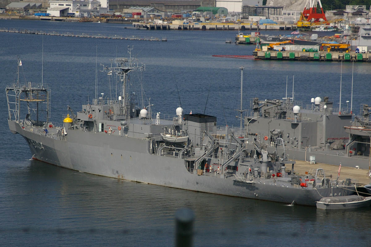 JS Wakasa (AGS-5104) berthed at Yoshikura-Pier, Yokosuka.